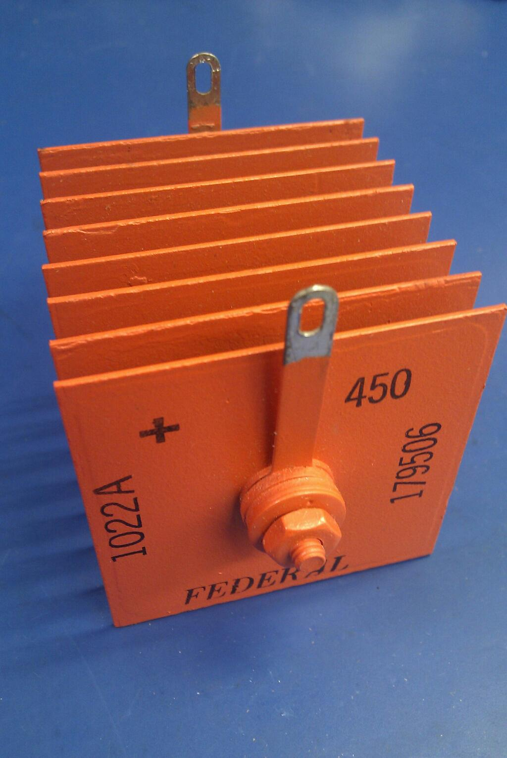 An 8 plate 160V 450mA Federal brand Selenium Rectifier